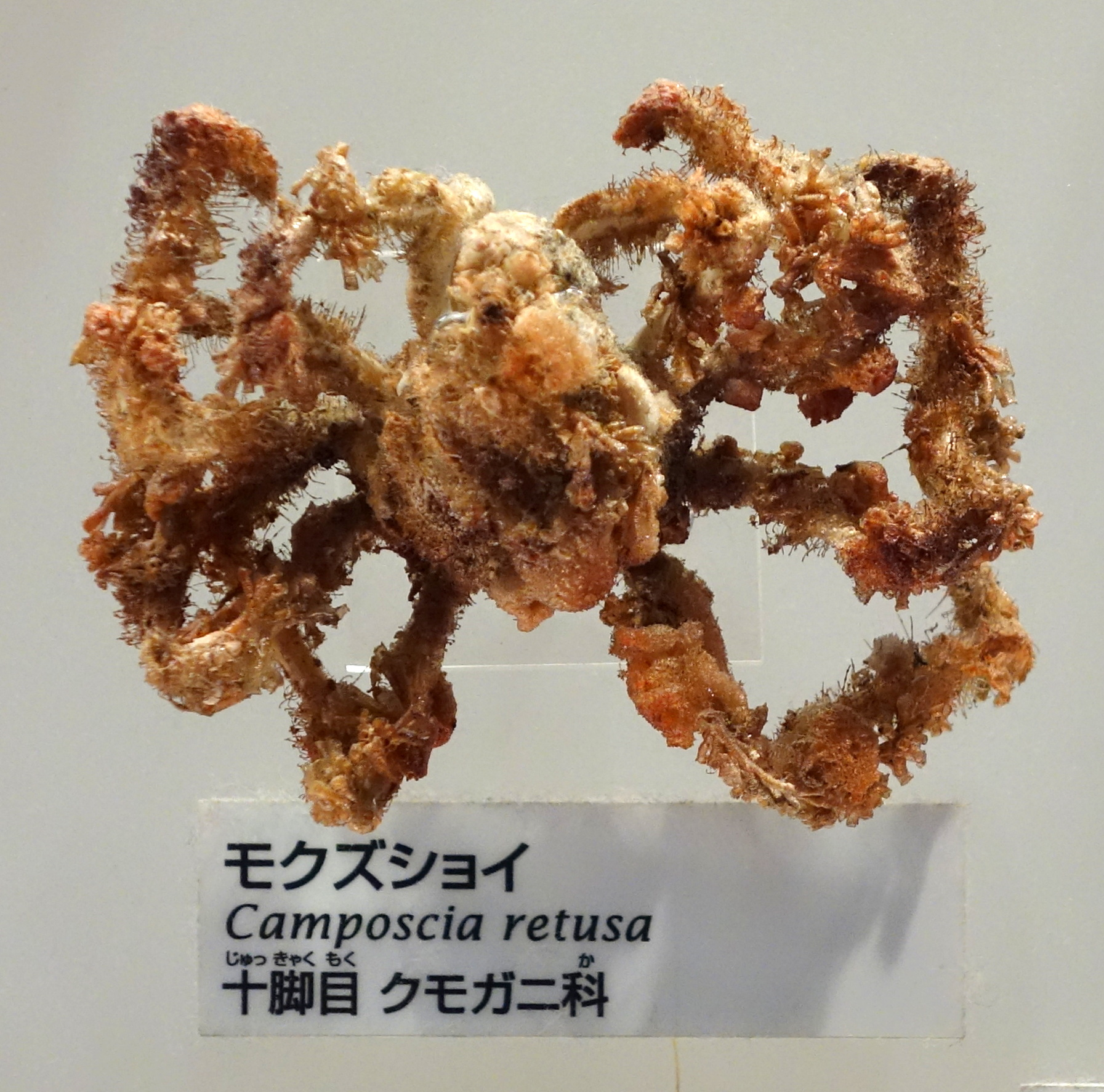 Exhibit in the National Museum of Nature and Science, Tokyo, Japan.